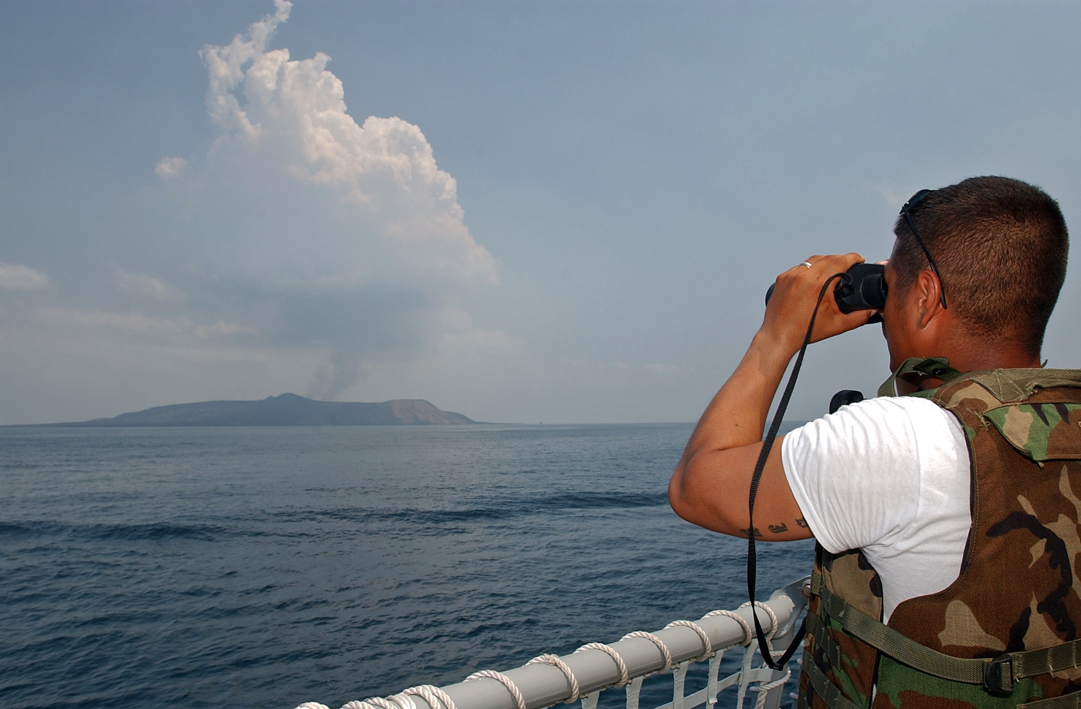 Eruption of Jabal al-Tair Island